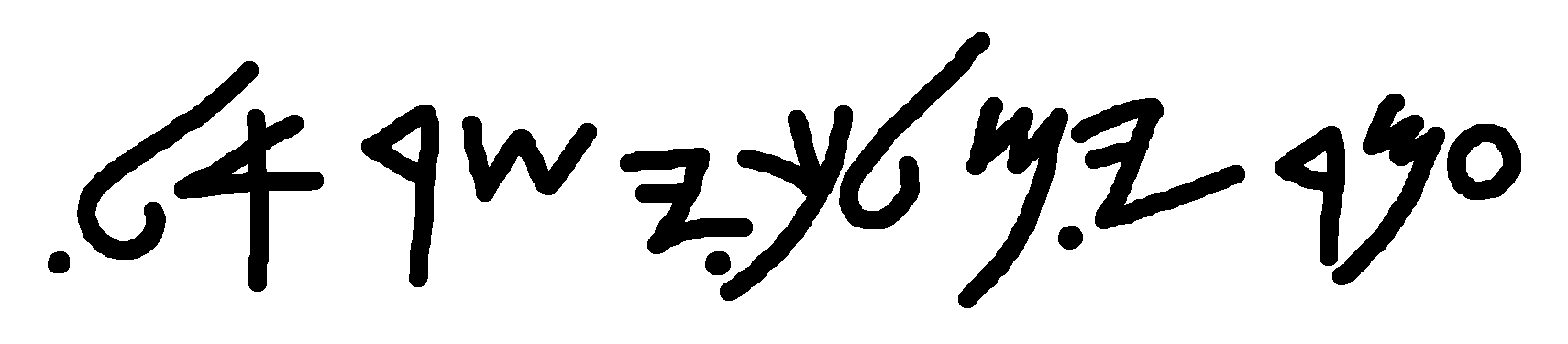 Mesha Stele: Omri, king of Israel as mentioned in the Moabite inscription (context: Omri king [of] Israel humiliated /the/ Moab [for] many days). Transliteration (modern Hebrew characters): [line 4:] עמר [line 5:] י מלך ישראל